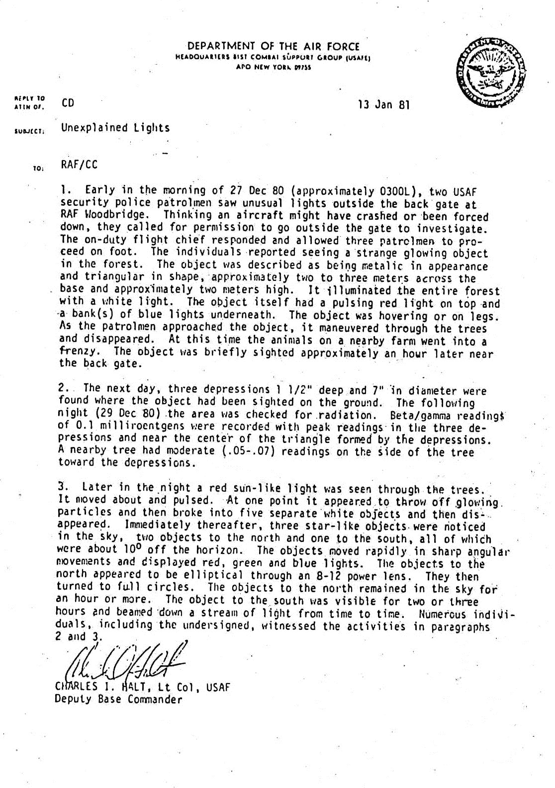 Memorandum by Lieutenant Colonel Charles Halt to the British Ministry of Defense regarding an incident in Rendlesham Forest, entitled "Unexplained Lights".